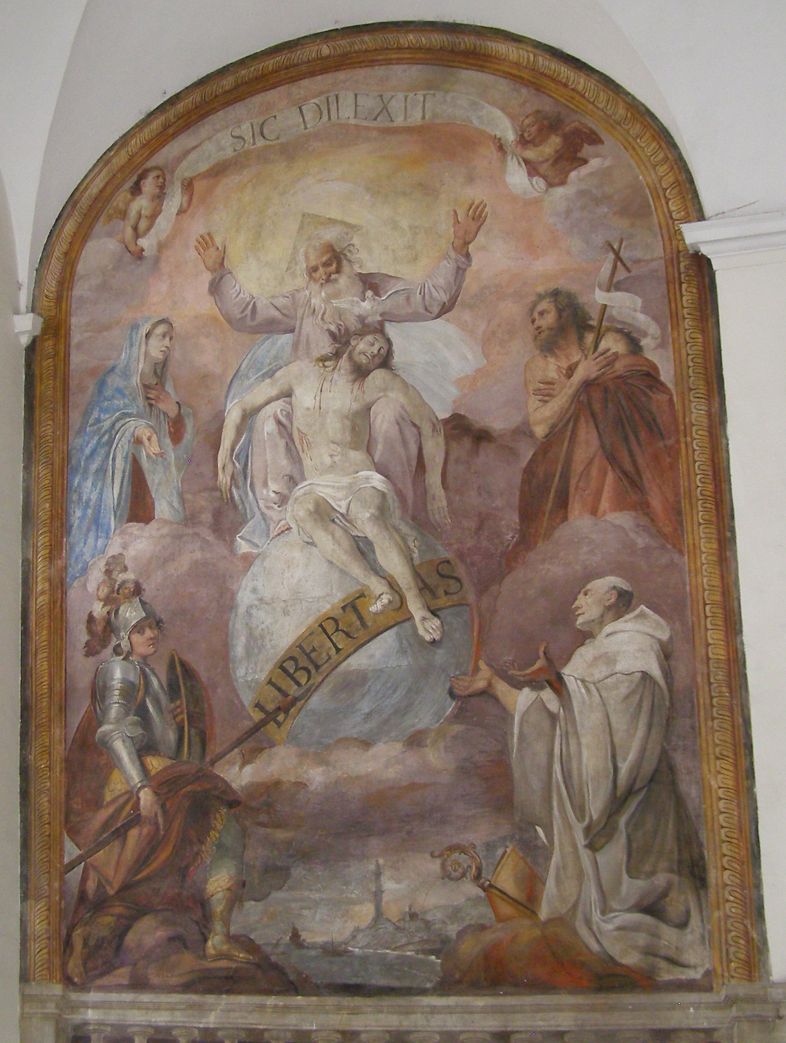 Genoa - Palace of the Doges "The Virgin and the Saints John the Baptist, George and Bernard intercede with the Holy Trinity for the salvation of the city of Genoa" fresco by Domenico Fiasella (Sarzana)